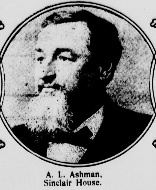 Photo of Amaziah L Ashman (d. 1902), proprietor of New York City hotel, Sinclair House.